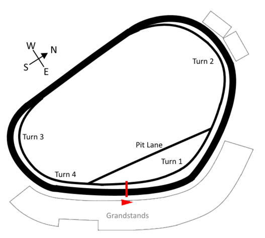 This is a basic map showing the track and pitlane of Nazareth Speedway prior to its closure in 2004.